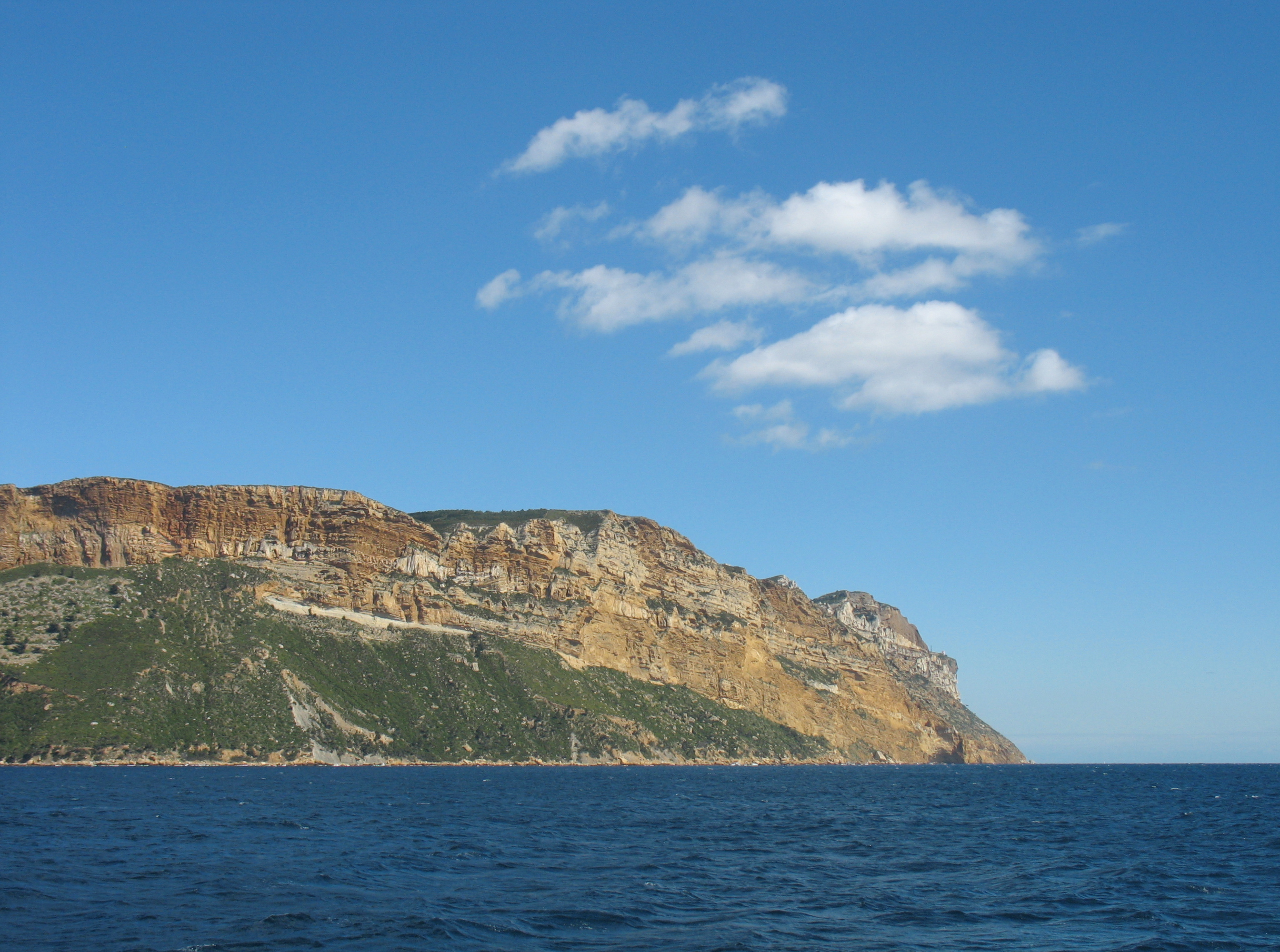 Barrel distortion and roll corrected with Hugin.